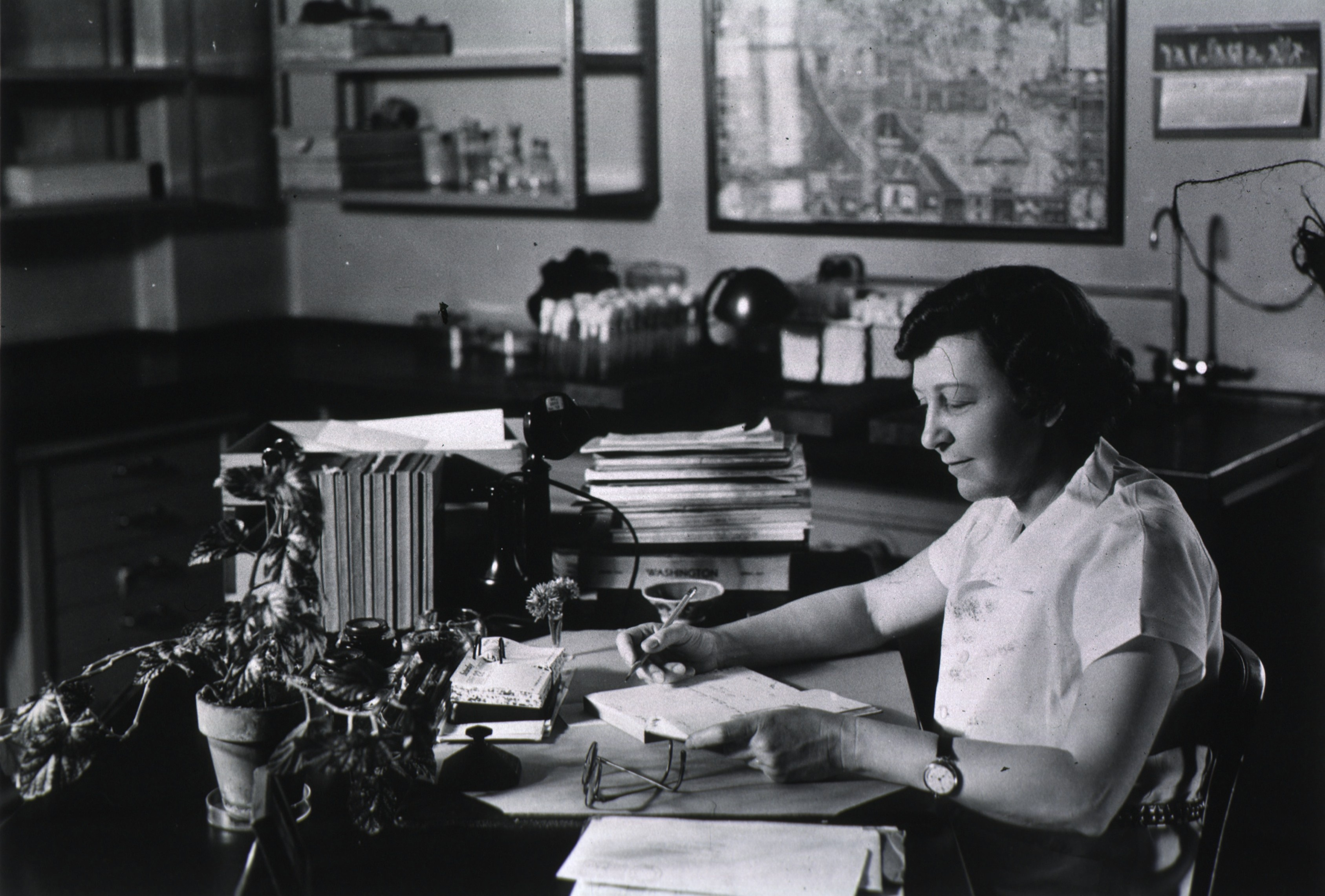 Sara Elizabeth Branham seated at desk, summarizing report on a "mouse protection test."